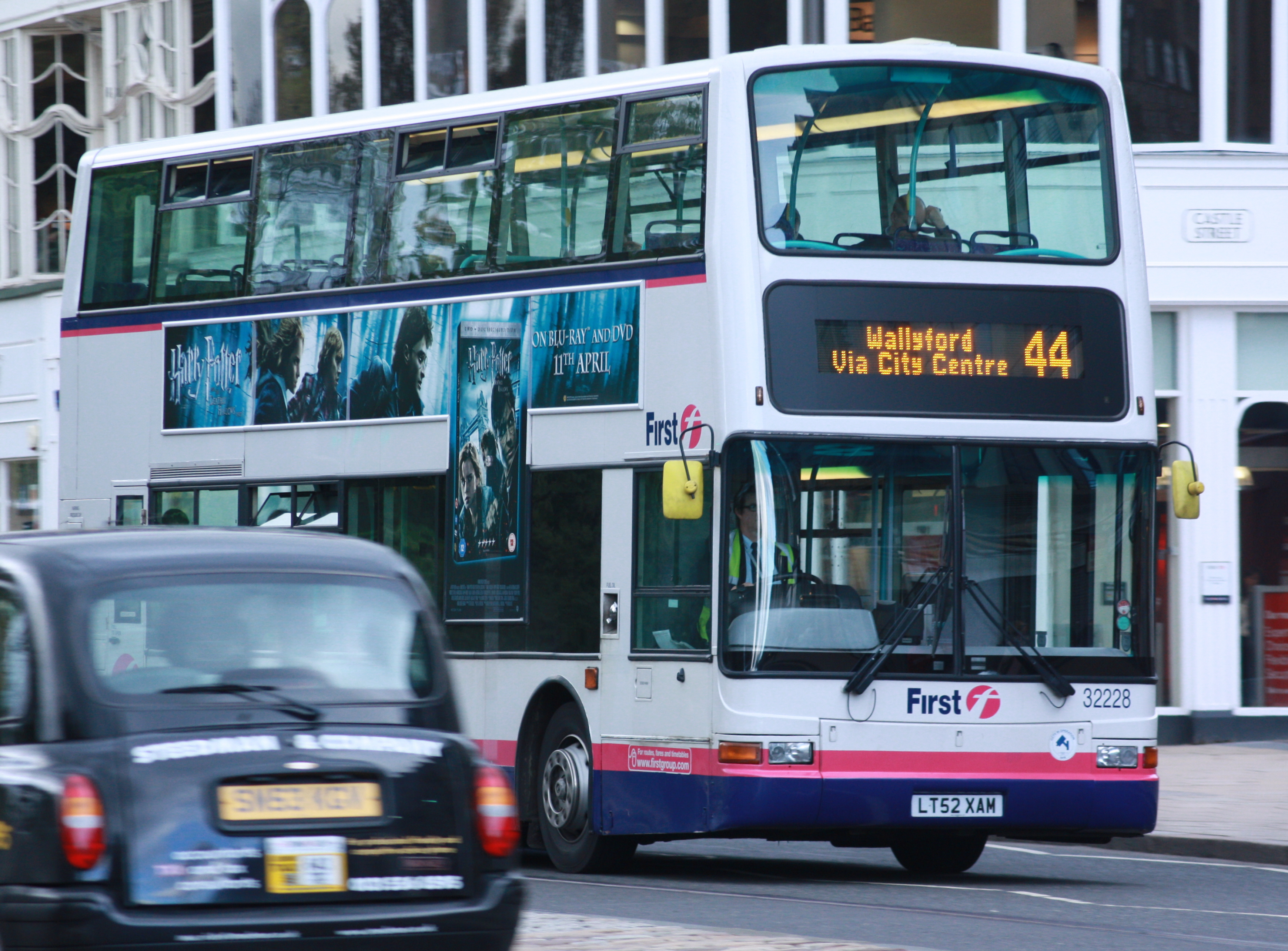 First Edinburgh bus 32228 (reg. LT52 XAM), a 2002 Volvo B7TL double-decker with Transbus President bodywork, pictured on Princes Street, Edinburgh. It is passing the junction with Castle Street heading east, operating the cross city route from Balerno to Wallyford. As is the norm now with large groups like First, the bus has been cascaded into this fleet from another fleet - it was originally a London bus, delivered new to First Centrewest, as their bus VTL1228.